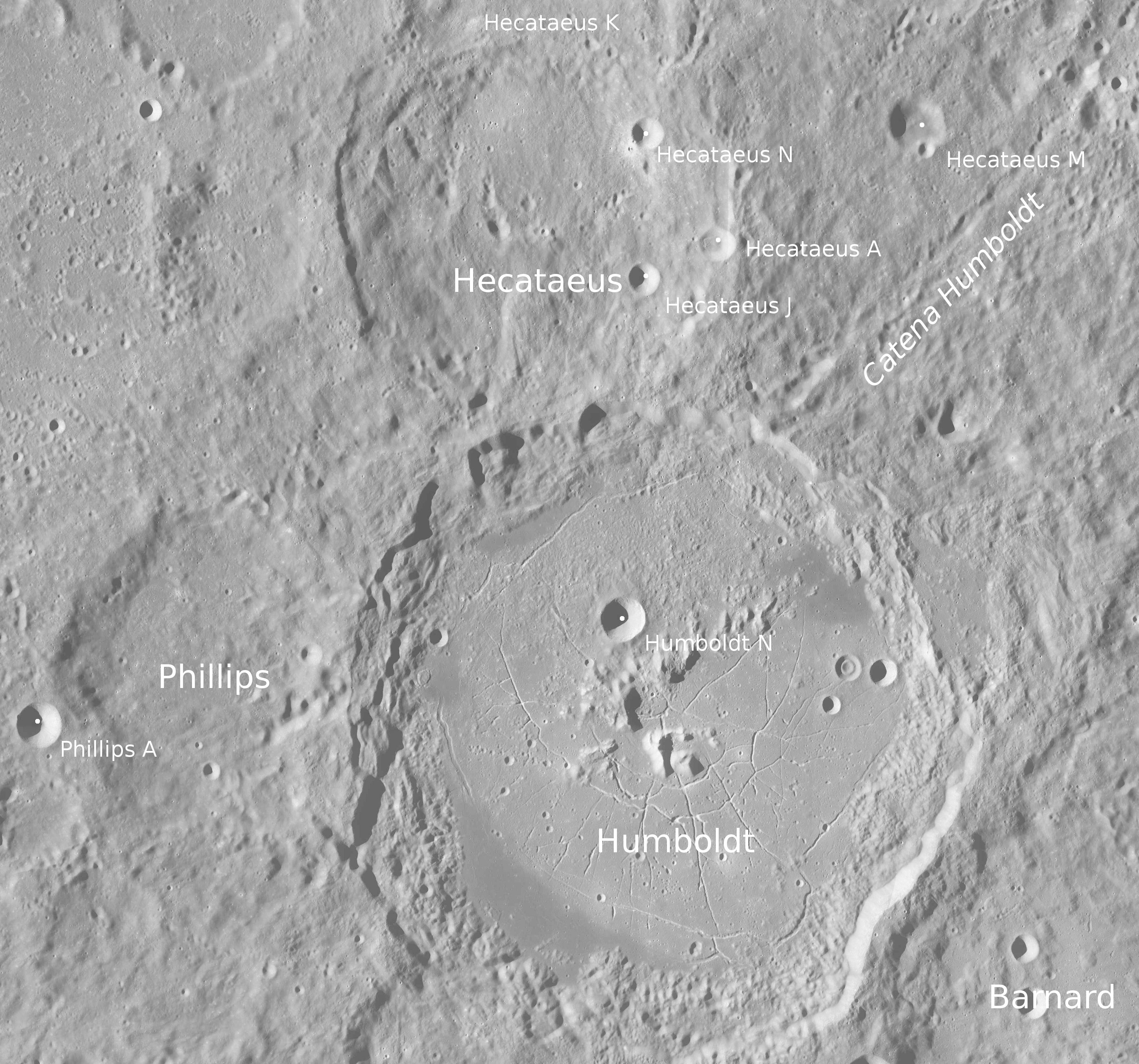 Craters Humboldt, Hecataeus and Philipps (detail of LRO - WAC global moon mosaic; Mercator projection)